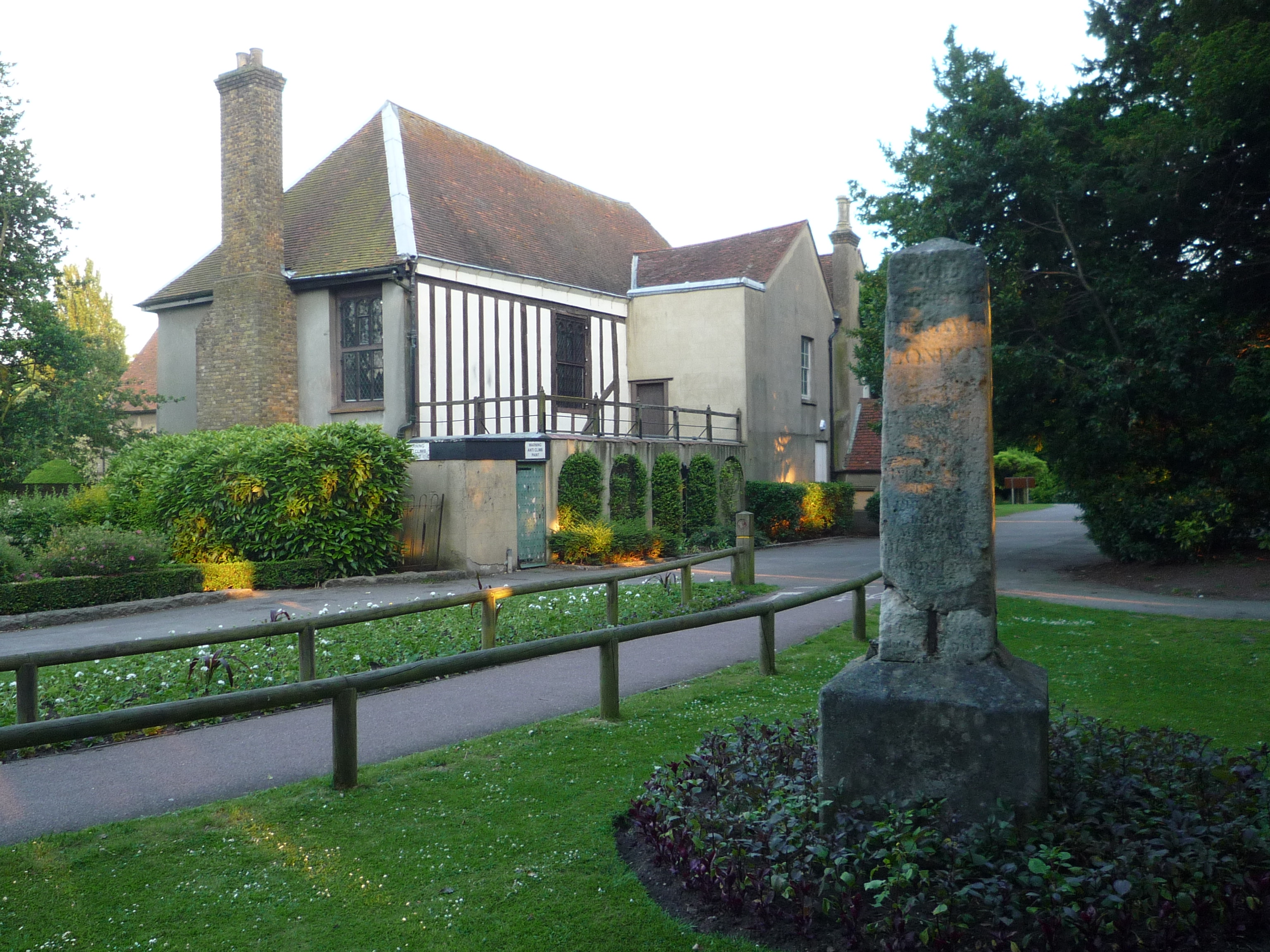 Prior's Chamber and Crowstone, near to Prittlewell, Southend-on-Sea, Great Britain. In the background is the Prior's Chamber, the other side from Prittlewell Priory. On the right is an earlier version of The Crowstone. As the Crowstone plaque explains, this stone was first erected on the shore at Chalkwell in 1755 and brought here in 1950. This stone is very similar to the older of the London Stones in Upnor (on the left in this image) right down the words "God preserve the City of London" on the face visible here and the shield of the City on the rear. The stone at Upnor is dated 1204 so we can be pretty confident that when this stone was erected in 1755, it was replacing an older stone. More images.